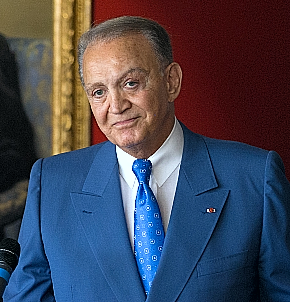 Syrian-Saudi Arabian businessman and philanthropist Wafic Said